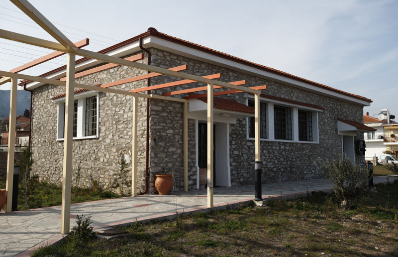 External view, image from the Olive and Oil Museum, Eleochori, East Macedonia, Greece